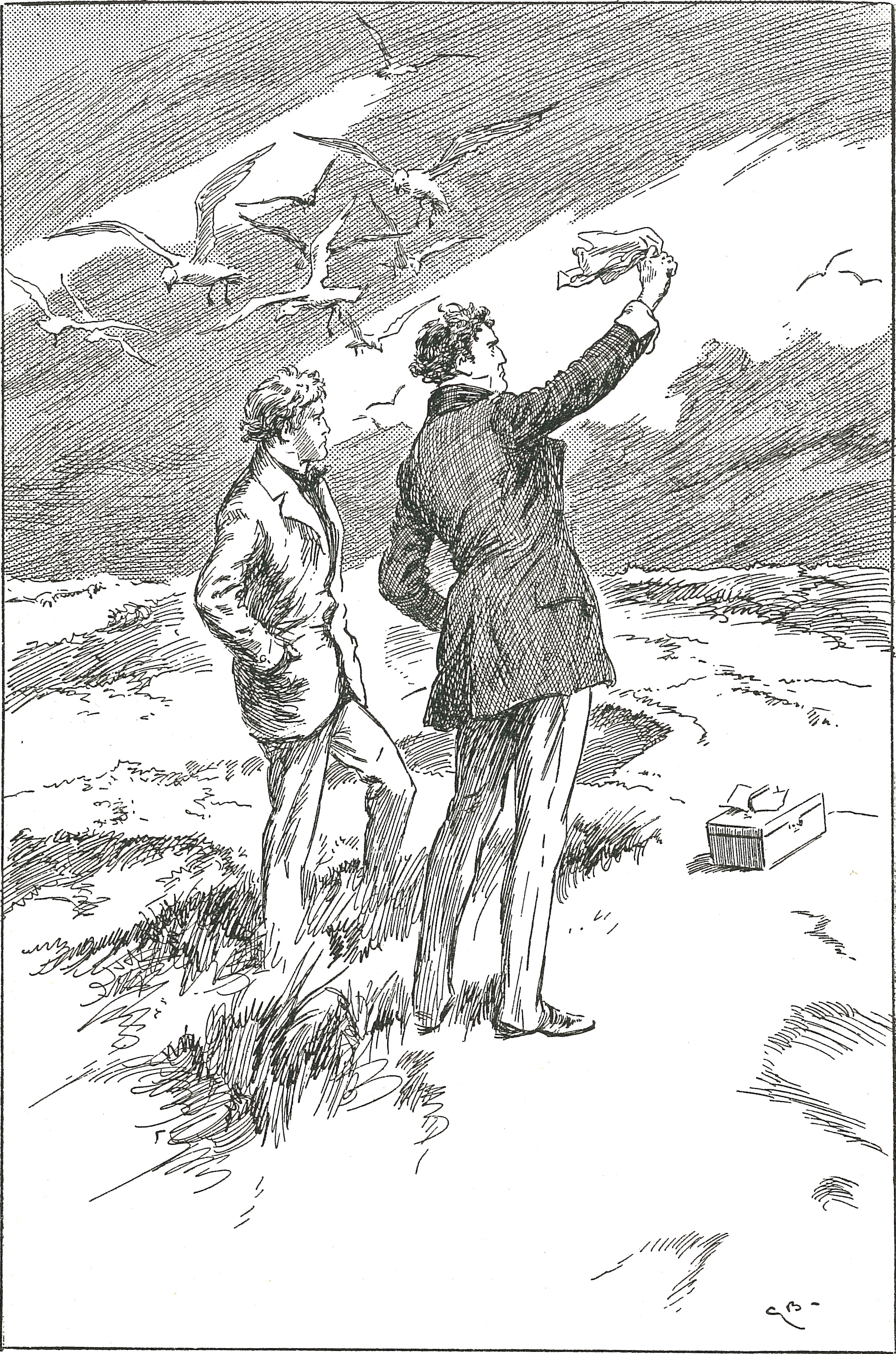 "Northmour waved a white handkerchief", illustration to face p. 70